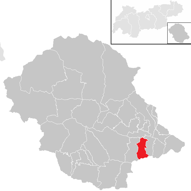 District Lienz